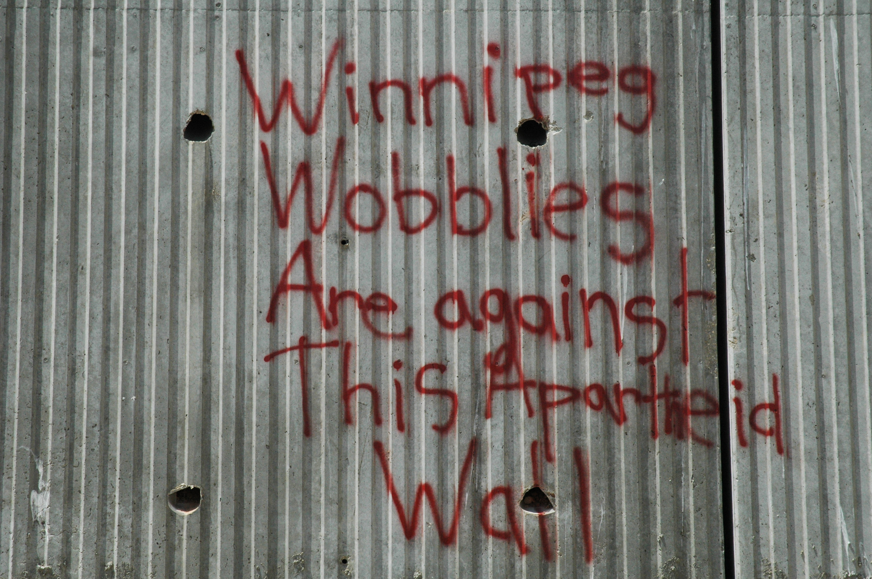 Graffiti on the West Bank barrier wall.